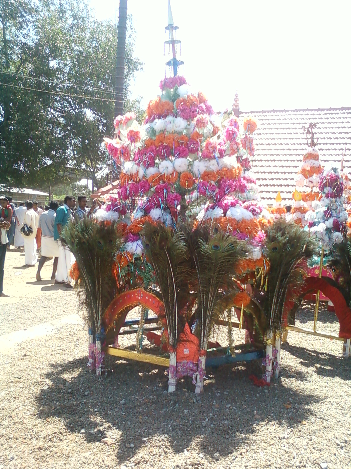 Kavadi with Six Face